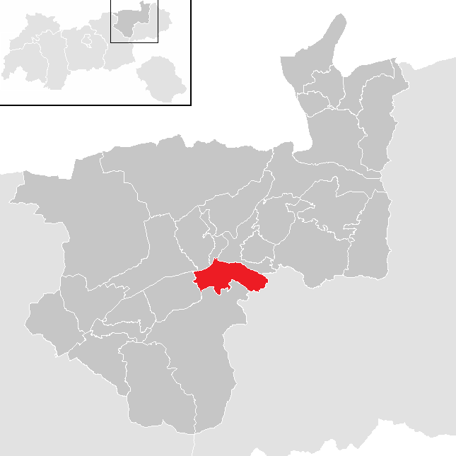 District Kufstein